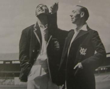 English captain Len Hutton and Victorian captain toss before a match at Melbourne